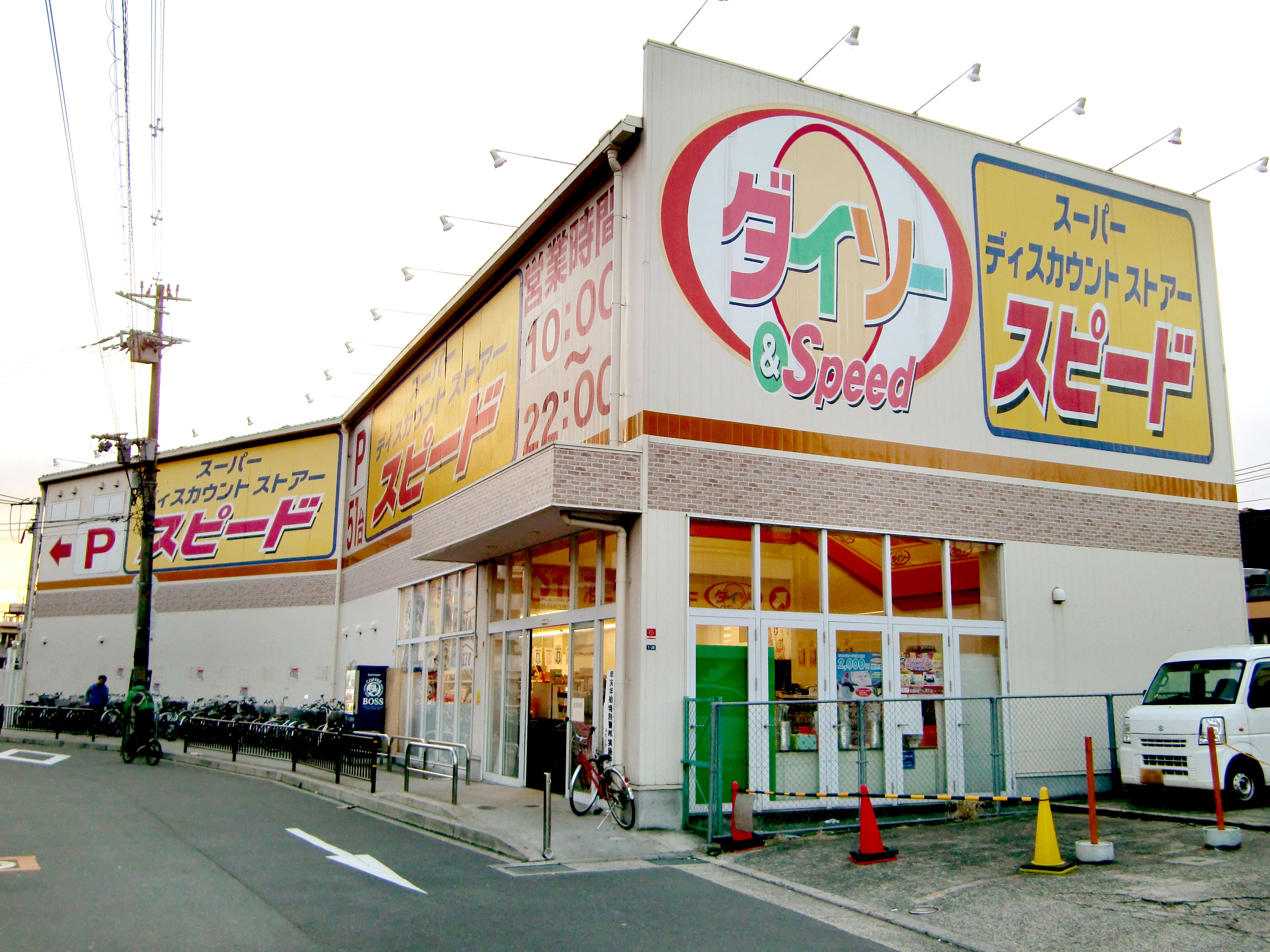 Speed_JR_Ibaraki-Ekimae,1-28 Nishichujocho Ibaraki-City Osaka Japan.